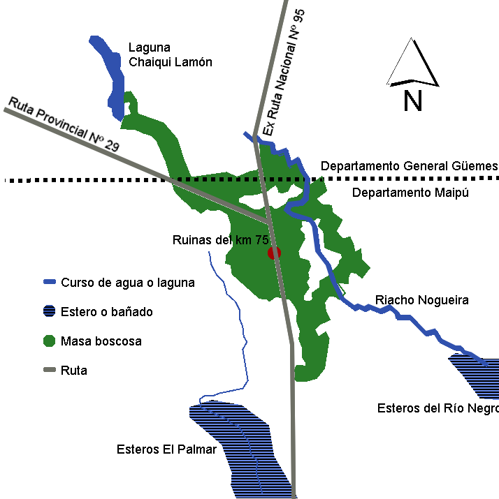 A map showing area of Ruinas del km 75 (Chaco province, Argentina) which correspond to Concepción del Bermejo city. Concepción del Bermejo existed between 1585 and 1632. Legends in English (from up to down): stream or lagoon; marsh; forest; road.